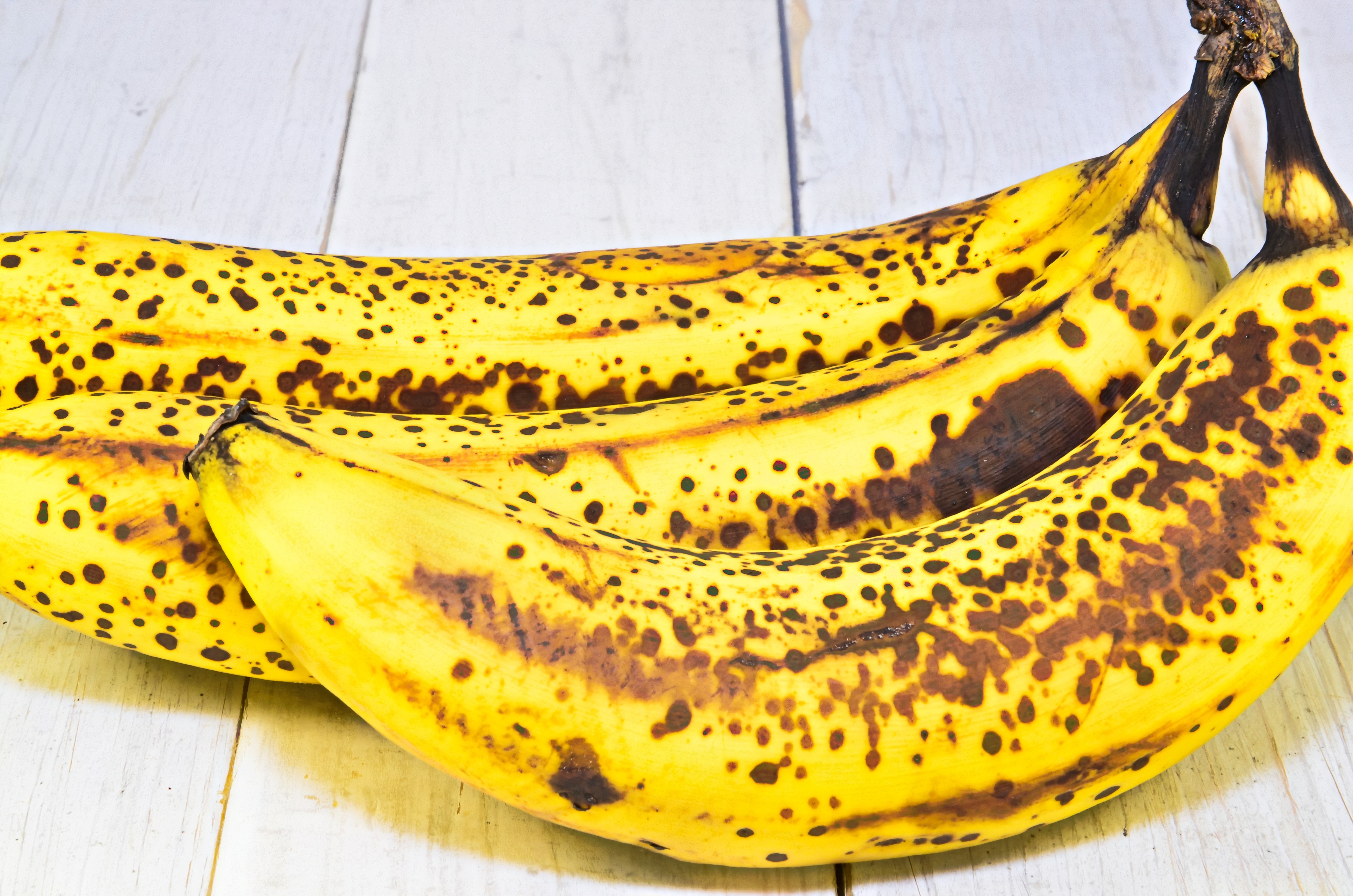 Ripe banana.